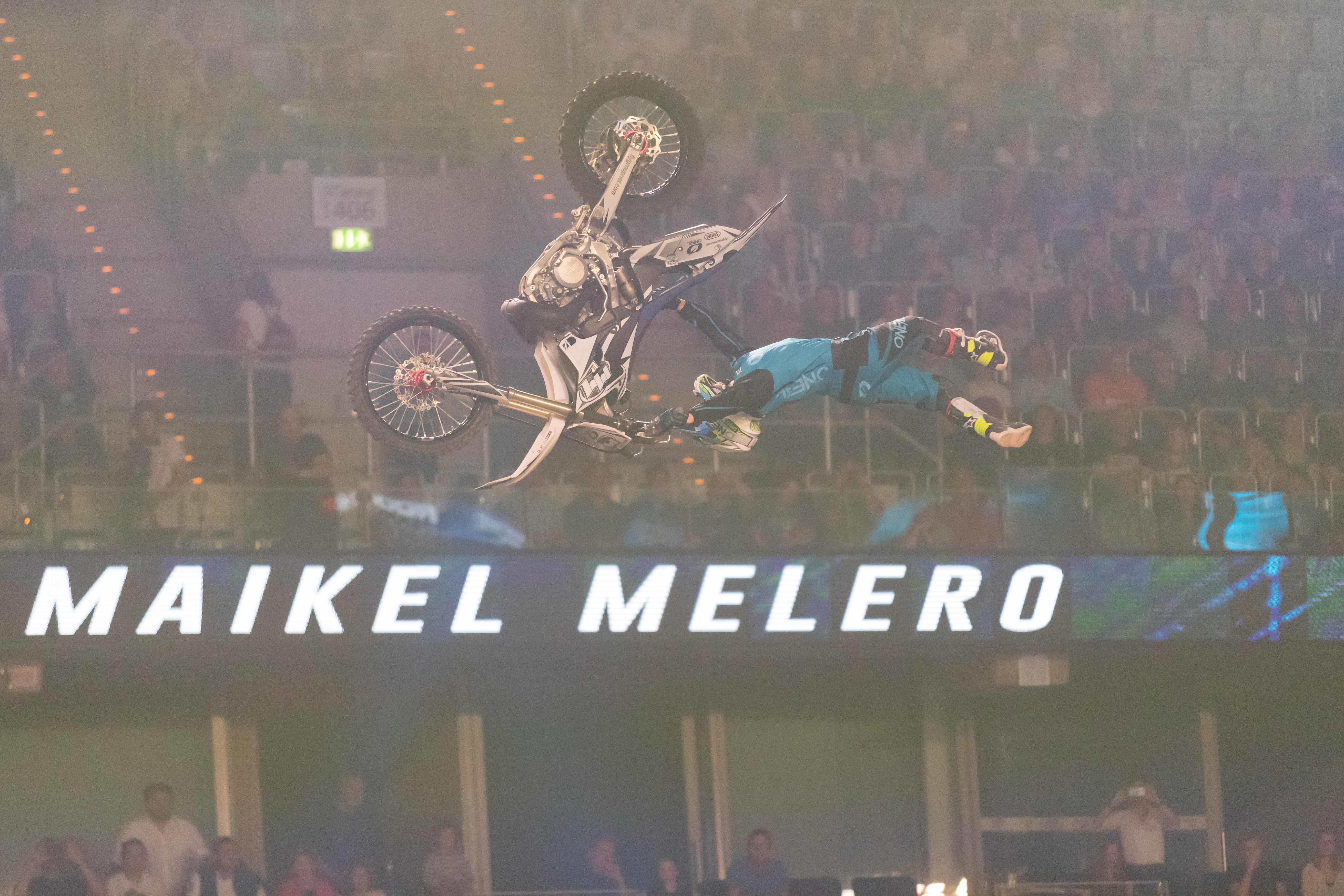 Maikel Melero (ESP) during Night of the Jumps at SAP Arena, Mannheim, Mannheim, Germany on 2018-05-05, Photo: Sven Mandel